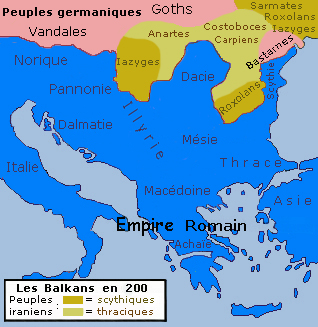 Historic map of Balkan peninsula, year 200